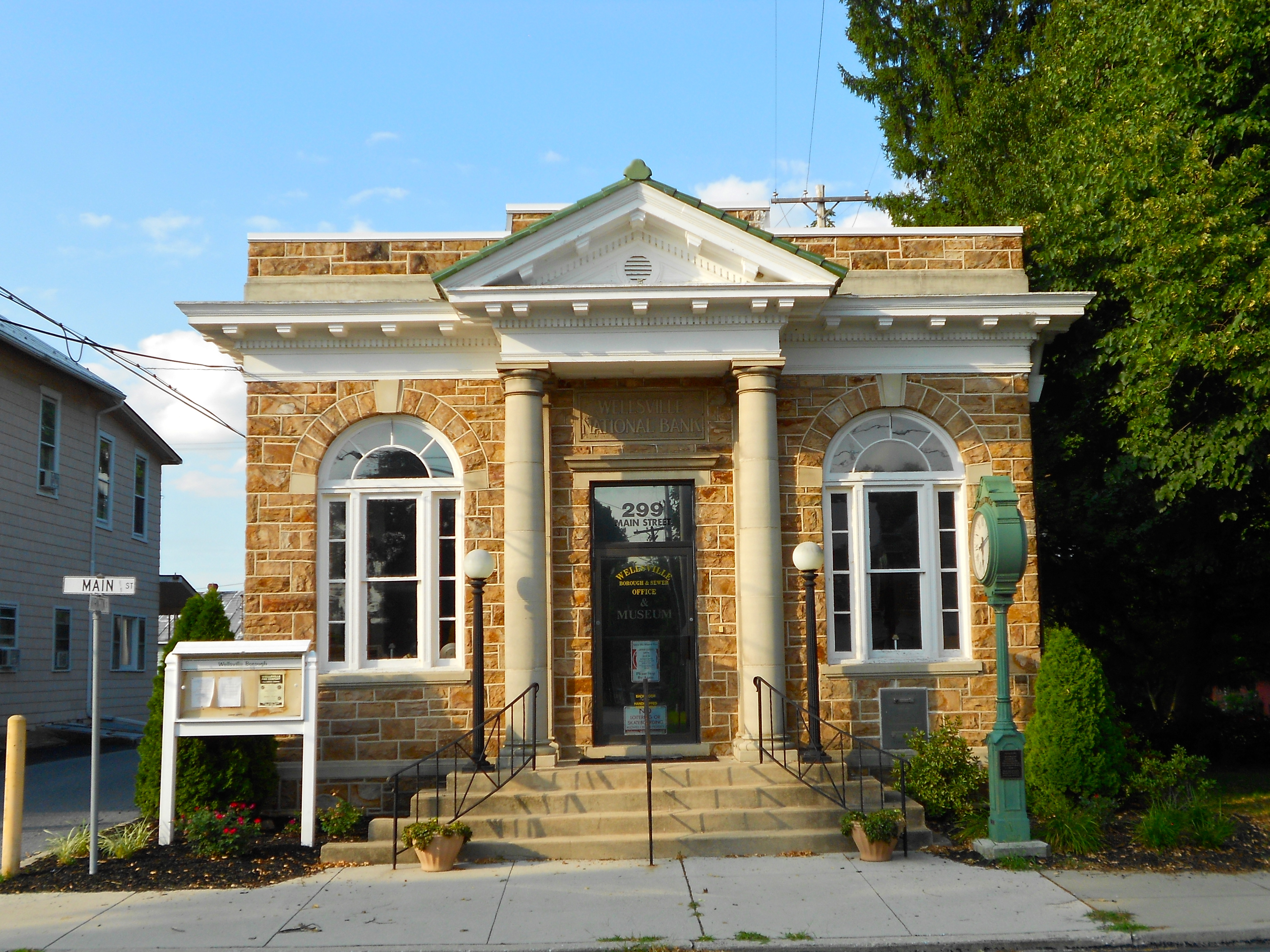 Old bank in Wellsville Historic District, listed on the NRHP on December 6, 1977, along York and Main Streets (Pennsylvania Route 74) in Wellsville, YorkCounty, Pennsylvania.